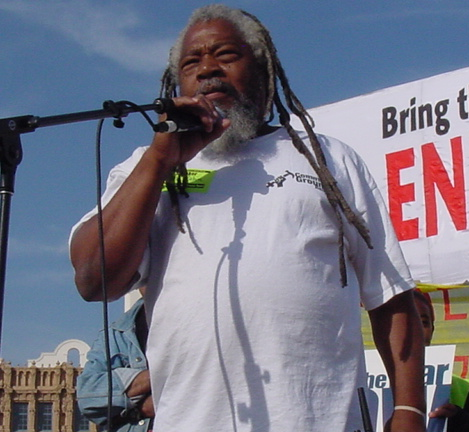 Photo of Mr. Rahim was taken at Dolores Park in San Francisco October 27, 2007. Rahim, representing Common Ground, gave a speech to an anti-war crowd who had marched from San Francisco's Civic Center.